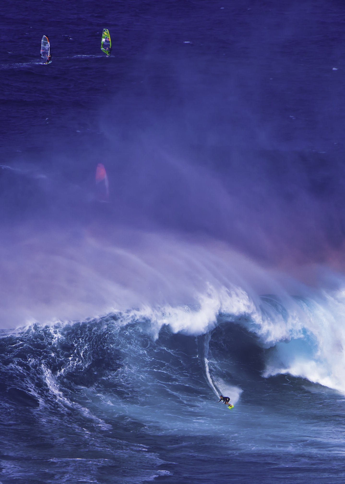 Jaws big wave surfing, January 4 th 2012 Maui Hawaii